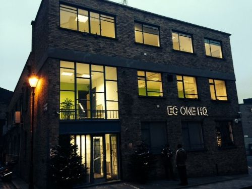 Ve Interactive headquarters in London